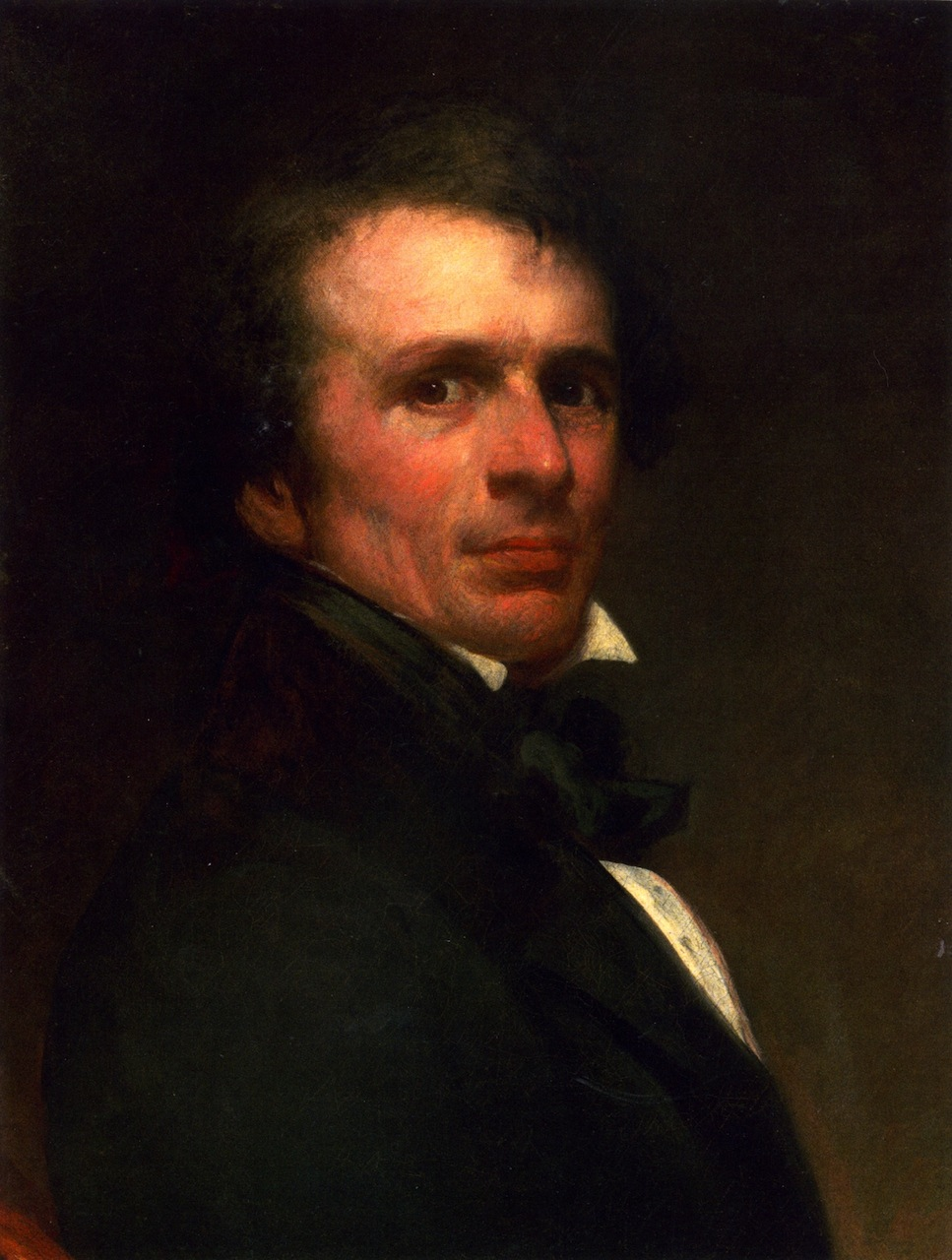 Self Portrait. about 1830. By Francis Alexander, American, 1800–1880. 61.28 x 46.04 cm (24 1/8 x 18 1/8 in.). Oil on canvas. Museum of Fine Arts, Boston.